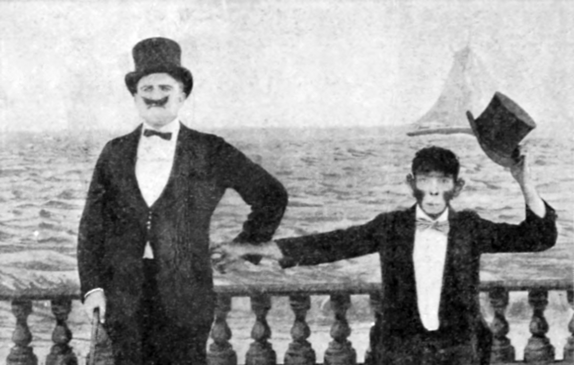 Still from the American silent comedy film The Playhouse (1921) with Edward F. Cline and Buster Keaton, page 62 of the December 1921 Photoplay.